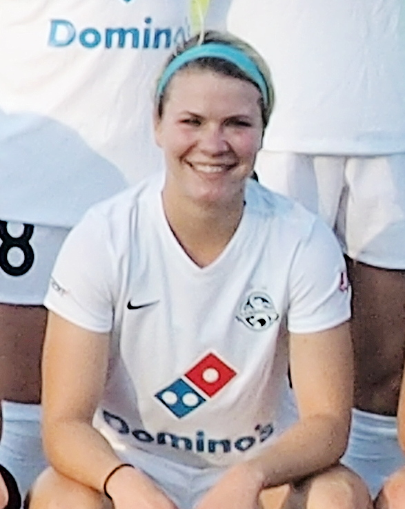 FC Kansas City vs Orlando Pride